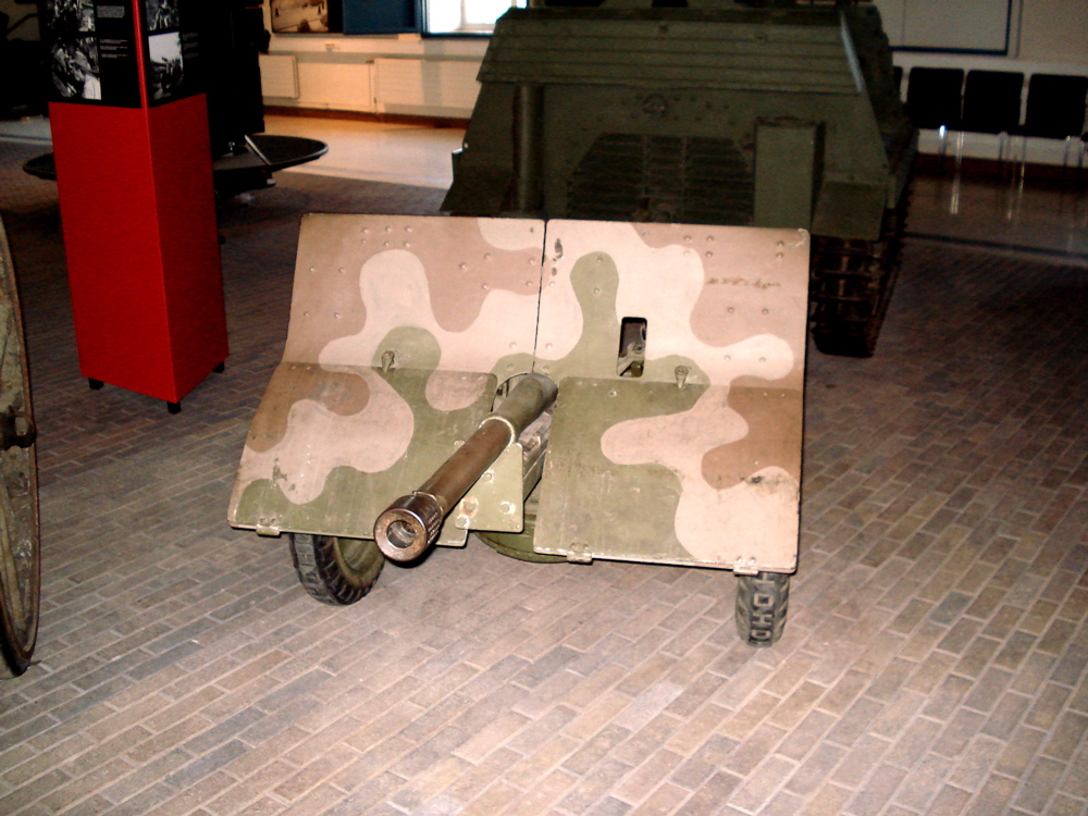 Bofors 37 mm anti-tank gun, manufactured and used by Finland during the Second World War, displayed in Manege Military Museum in Suomenlinna fortress, Helsinki. Photo taken on June 10, 2006. Source: Photo by me, User:Balcer.